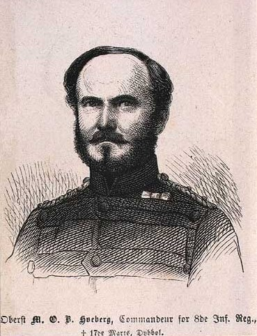 Magnus Olaus Baadh Hveberg (1806-1864), Danish army colonel